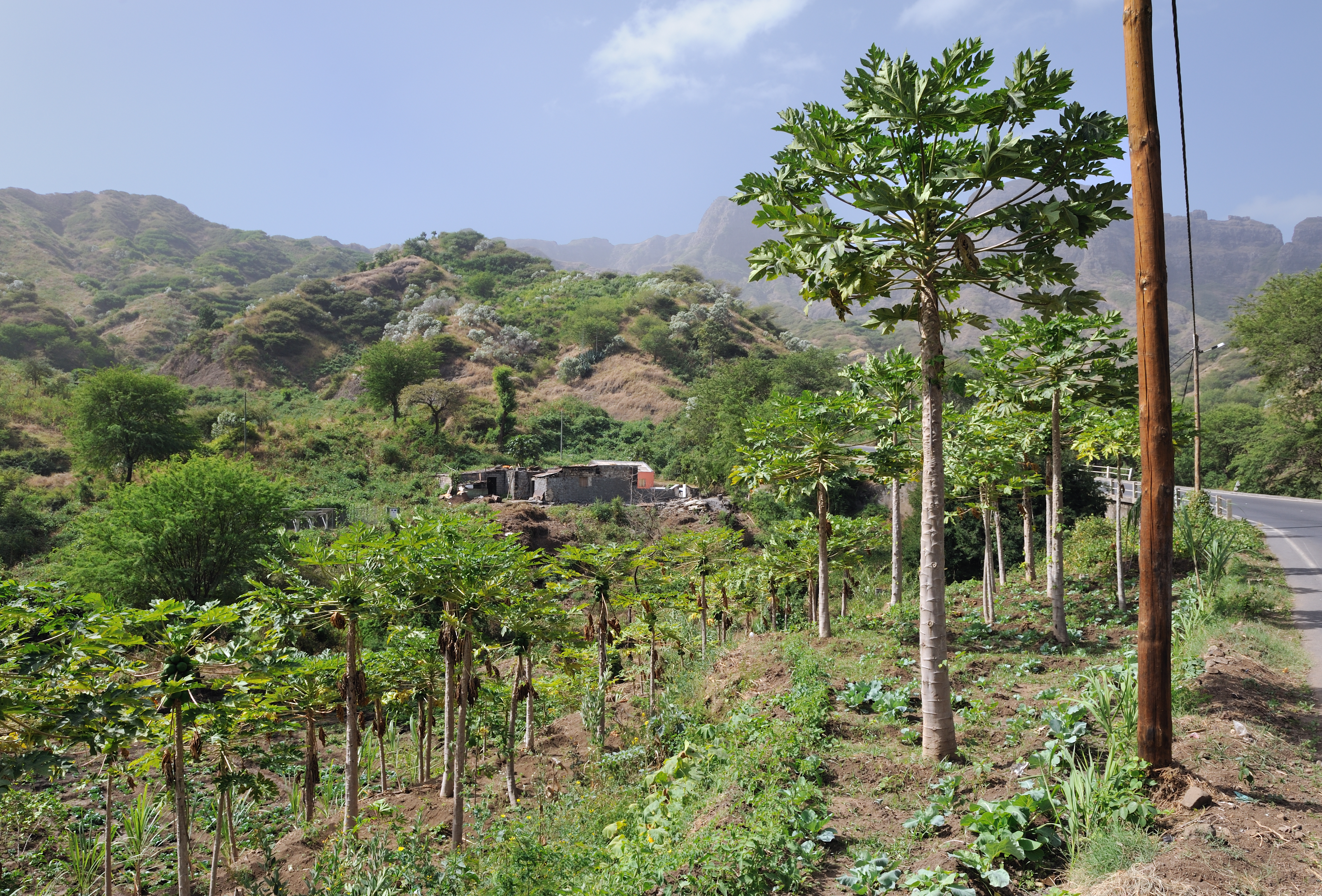 Isle of Santiago, Cape Verde: landscape and roadside garden with papaya trees (Carica papaya) in the south of the island.